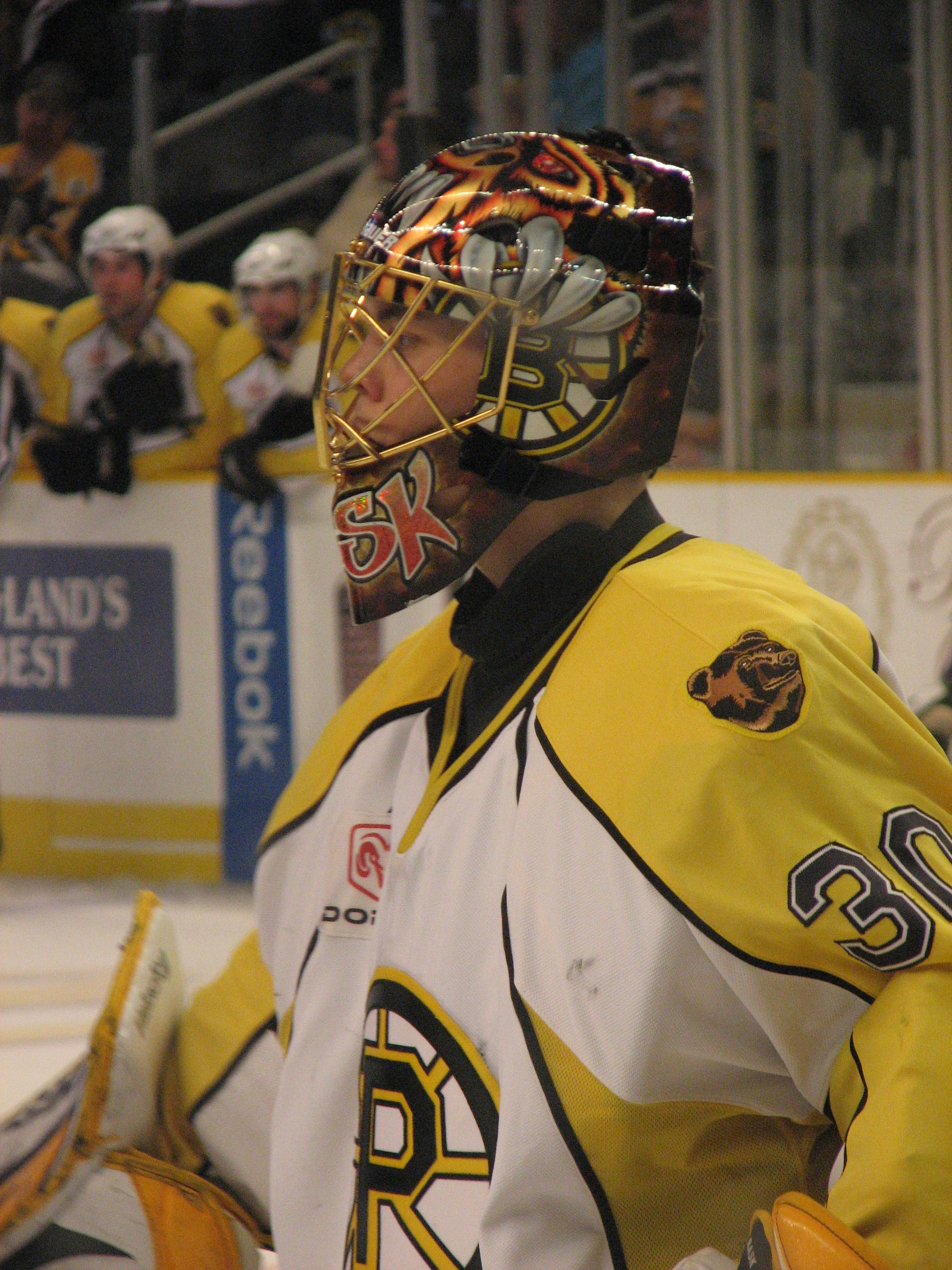 Tuukka Rask, finnish goaltender Providence Bruins vs. Philadelphia Phantoms Nov 9, 2008